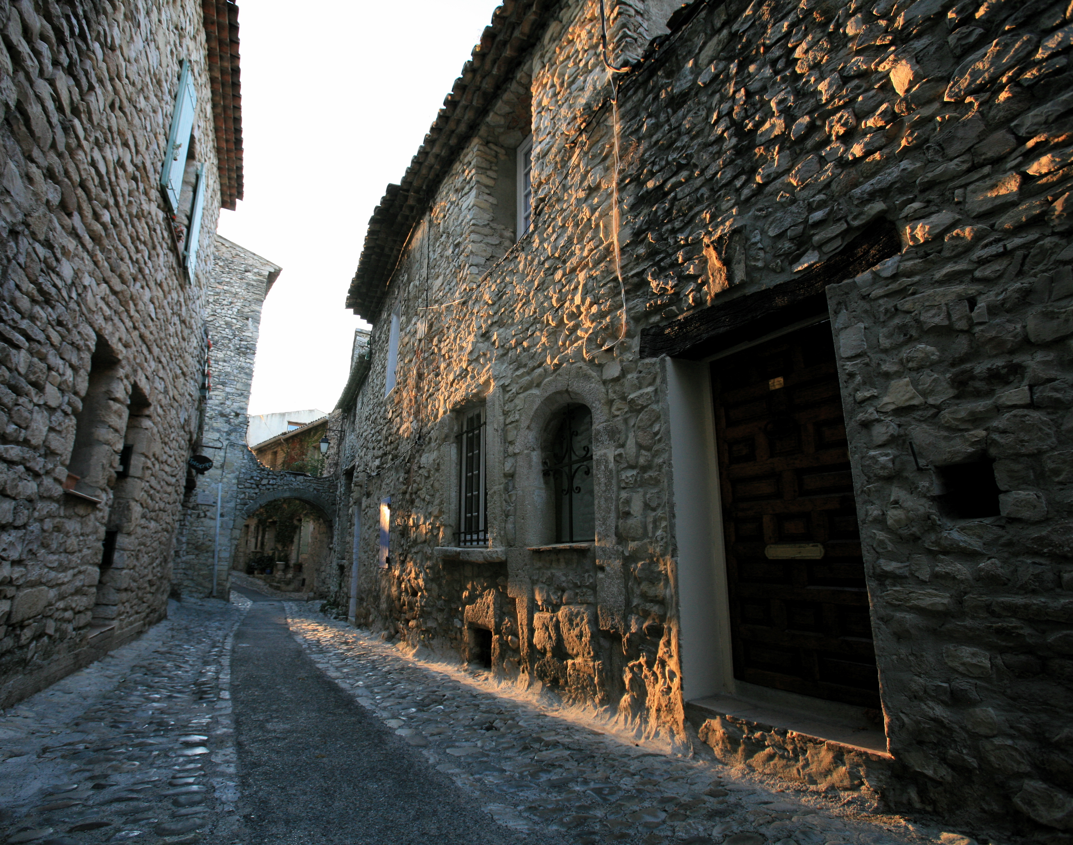 Stone houses in Vaison-la-Romaine, Vaucluse department, Provence, France